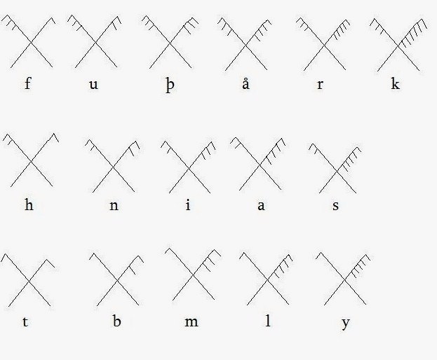 Tjaldrunir (secret runes)